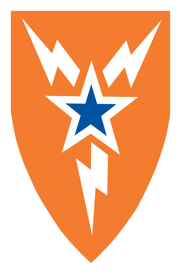 Shoulder Patch 3d Signal Brigade